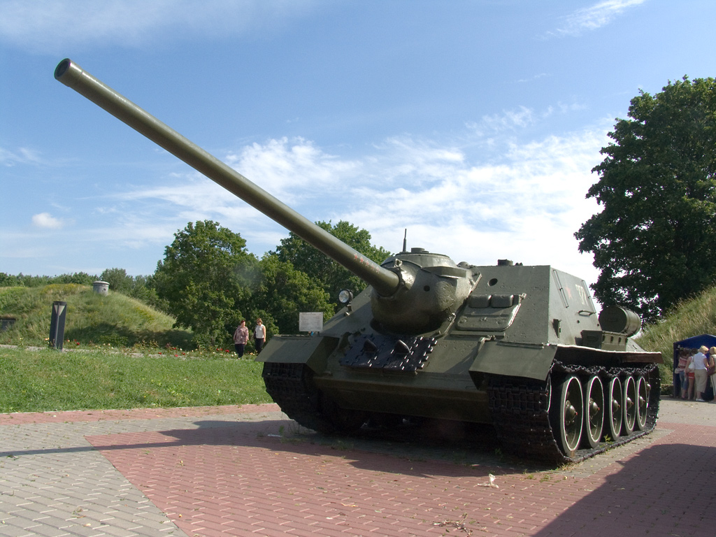 SU-100 - a Soviet tank destroyer